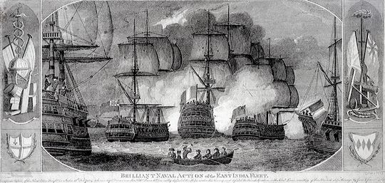 Brilliant Naval Action of the East India Fleet. The representation of the Naval Action Fought in India 15th Feby 1804 wherein Capt. Dance.... defended the Ships under his Convoy, and ships Marengo... & four frigates, Malacca 15 Feb 1804